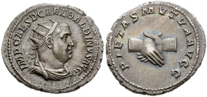 BALBINUS. AD 238. AR Antoninianus (24mm, 4.57 g, 1h). Radiate, draped, and cuirassed bust right Clasped hands. RIC IV 11; RSC 6; BMCRE 71.